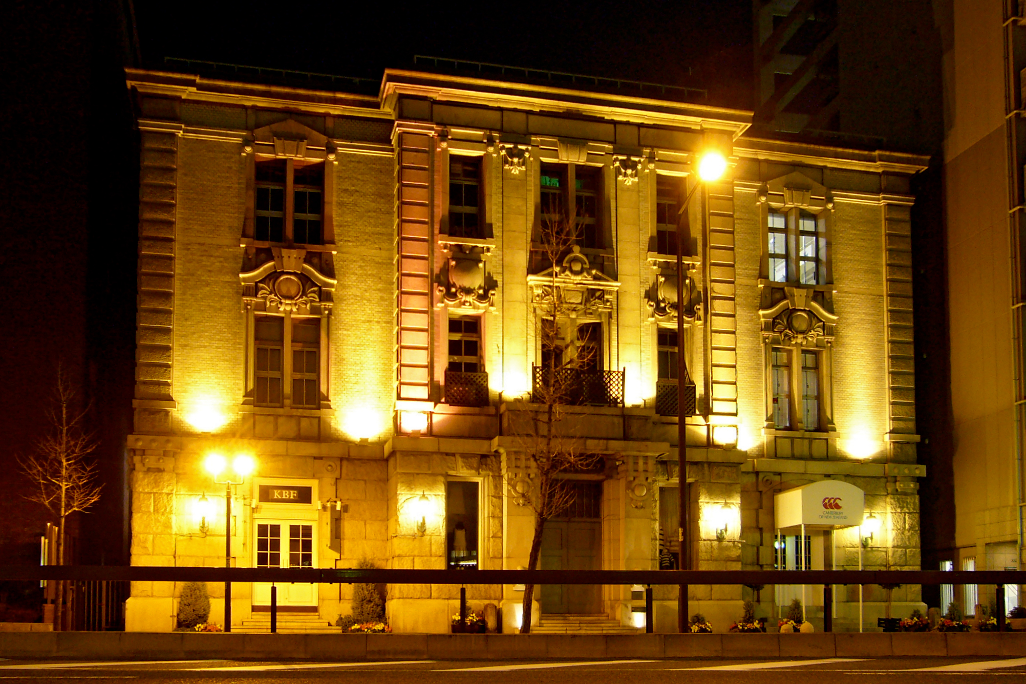 Kaigan Building (Former Nichigo-kaikan) in Kobe, Hyogo prefecture, Japan